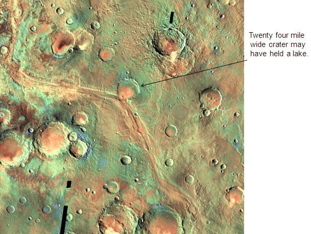 Mawrth Vallis as seen by themis. The location is 22.3 degrees north latitude and 15.9 degrees west longitude. Picture taken with Mars Odyssey's THEMIS. Photo credit NASA/JPL/ASU.